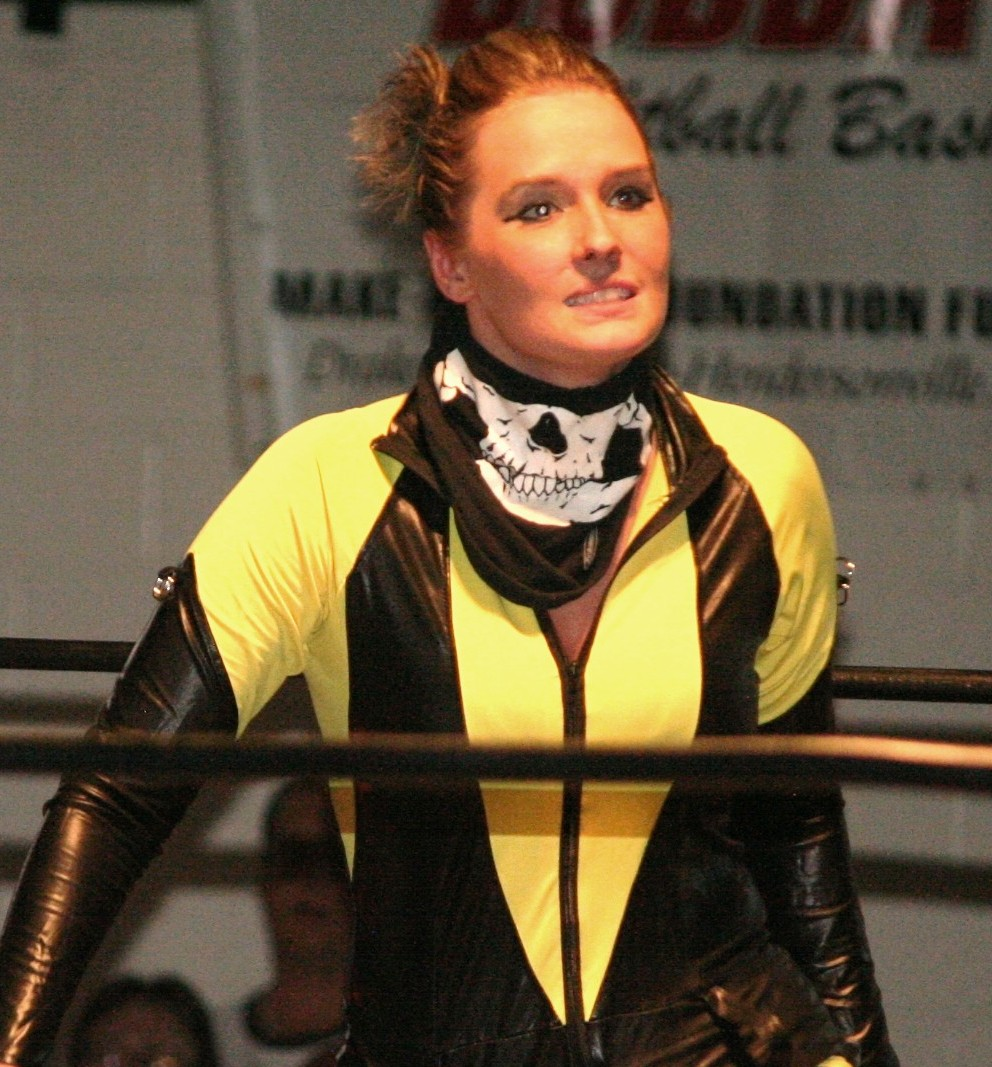 Jessicka Havoc before a match with Reby Sky in May 2012 for Crossfire Entertainment in Nashville, TN